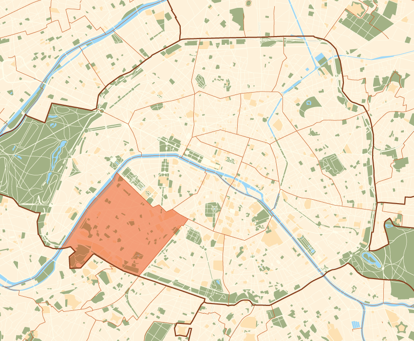 Plan by ThePromenader (own work)